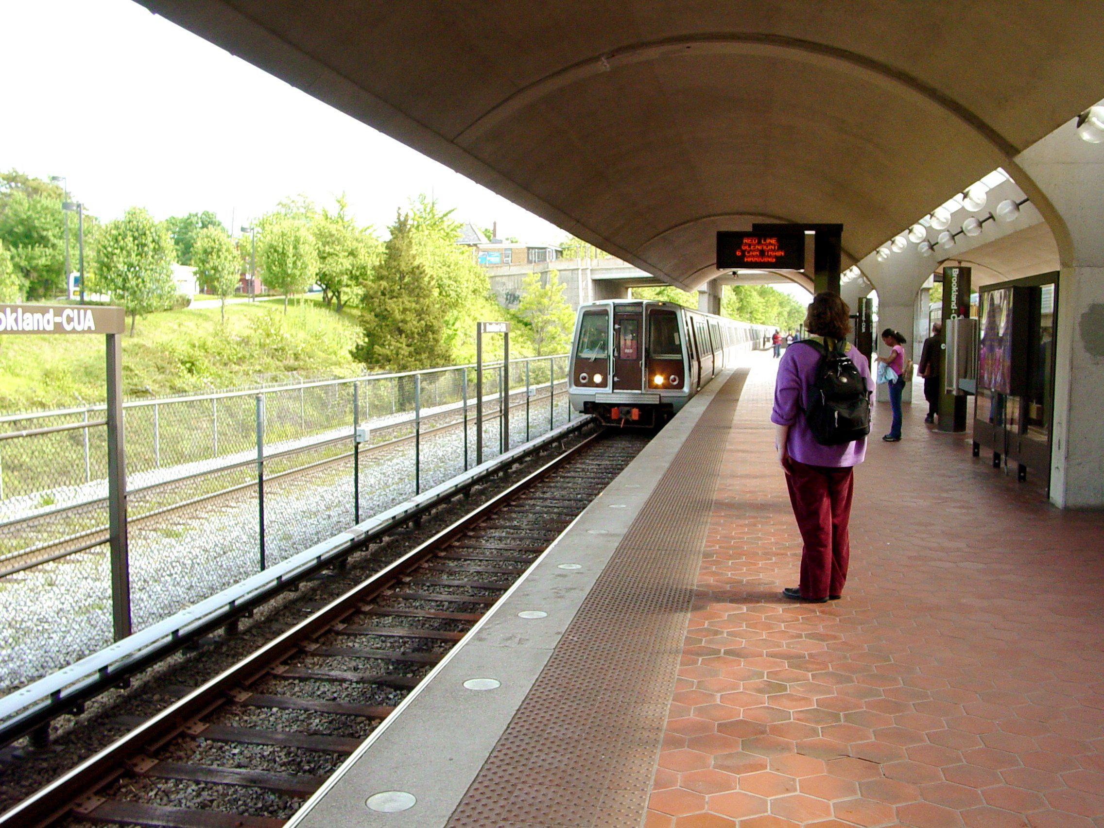 Brookland-CUA station (Washington Metro) showing the outbound track.